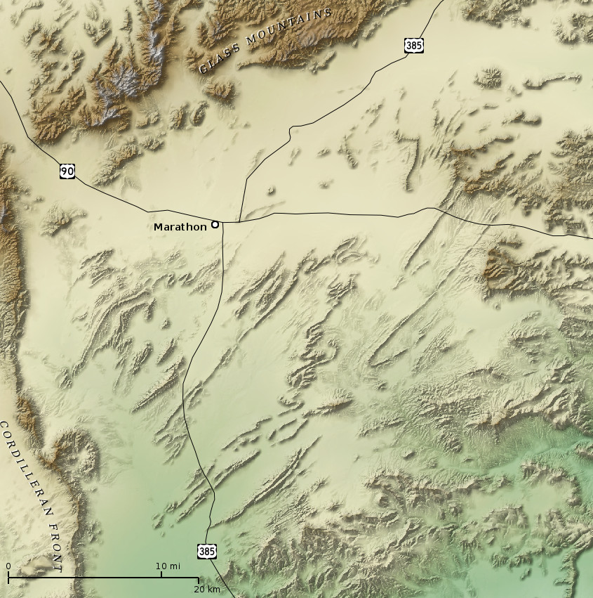 The deformed strata of the Ouachita orogen reappear in the northeast-trending ridges of pre-Permian Paleozoic rocks exposed near the town of Marathon, Texas. This map was created with GIS data from the National Atlas of the United States